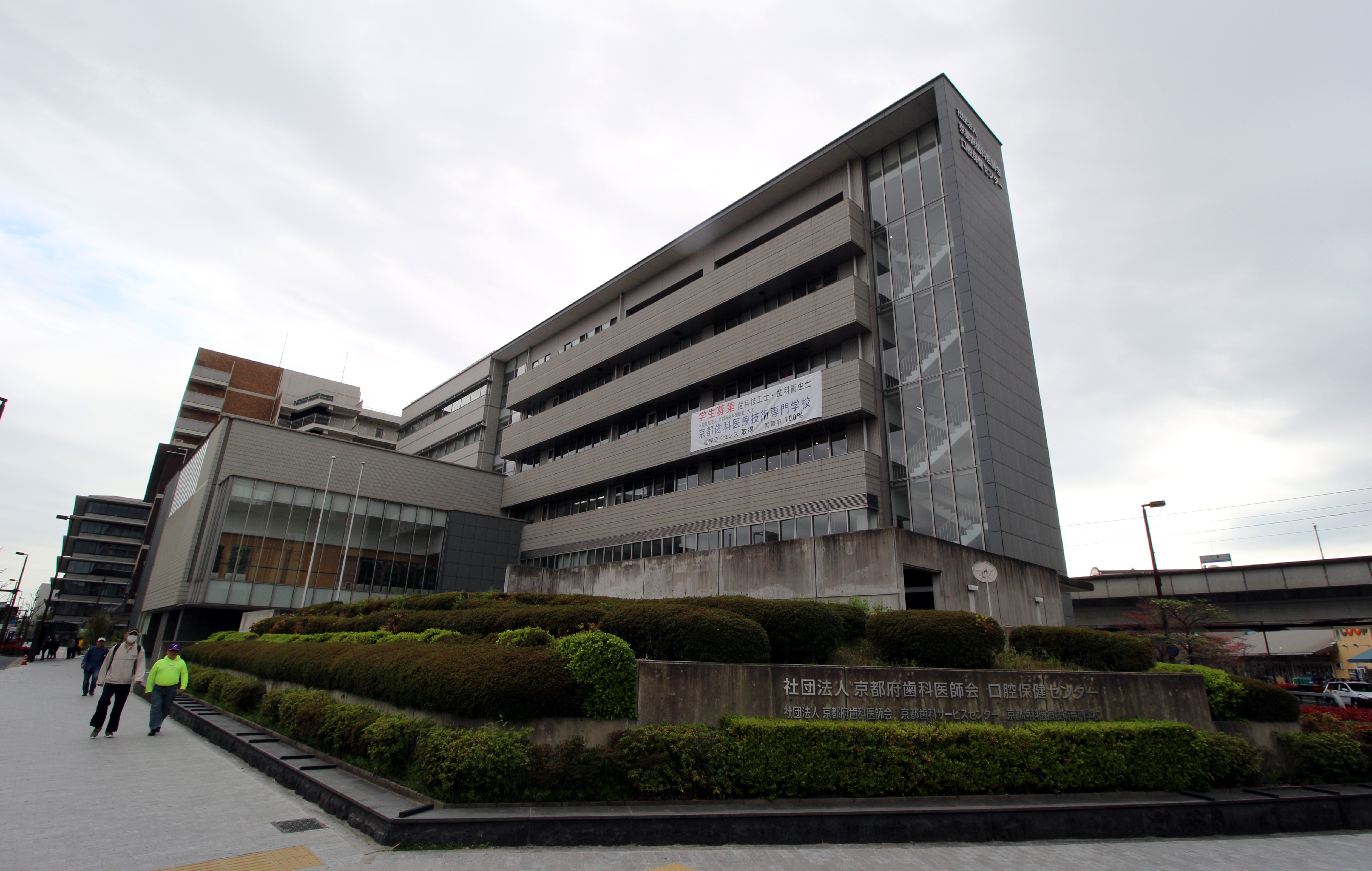 Kyoto College of Dental Hygienists & Technicians in Kyoto, Japan.